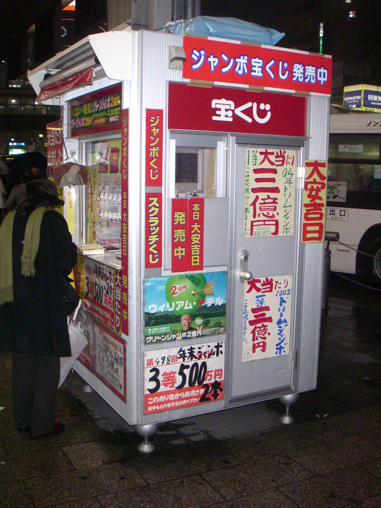 Public lottery stall, East entrance, Shibuya Station, Tokyo 渋谷駅東口の宝くじ売り場